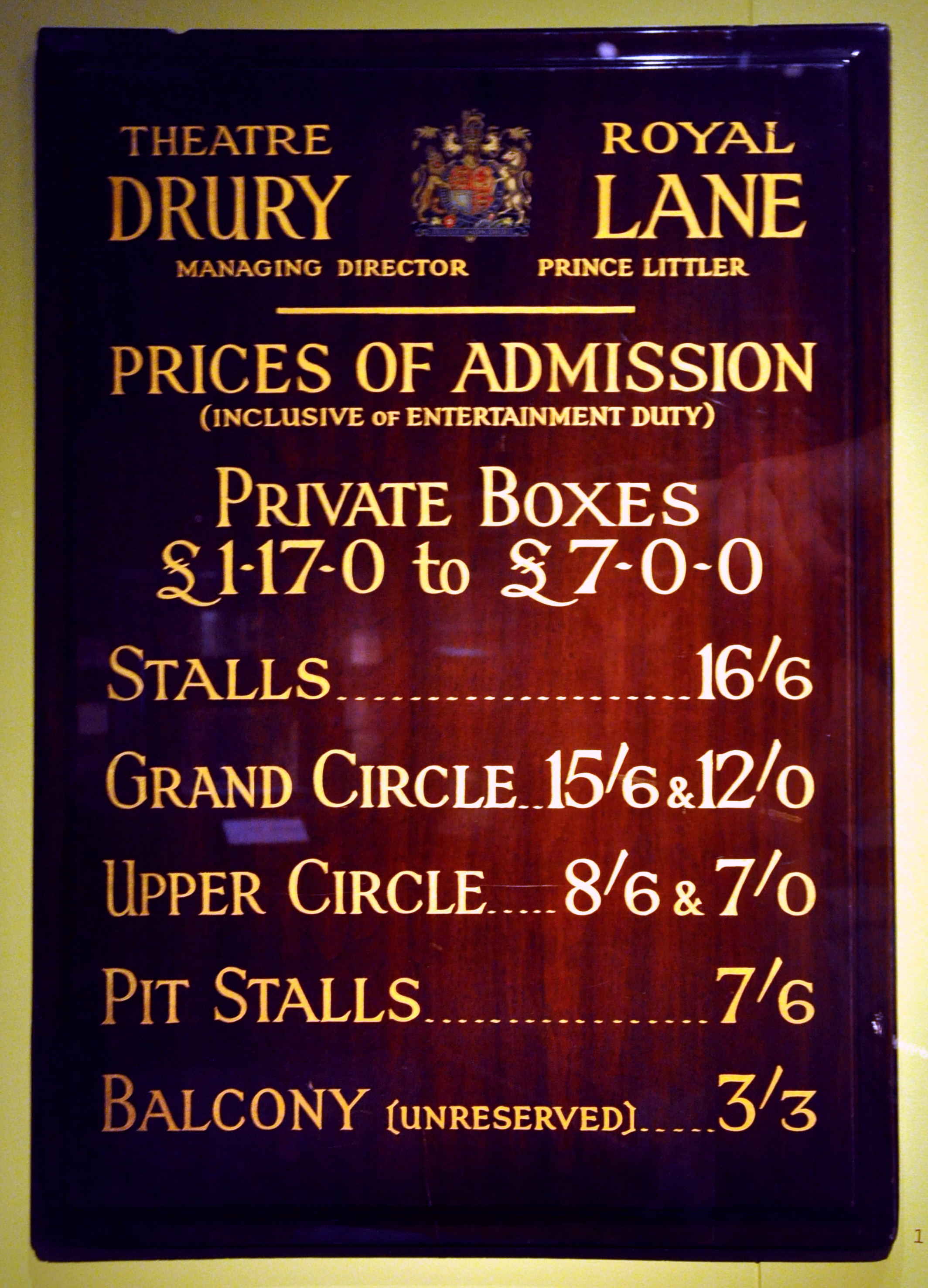 Wooden notice board displaying the entry prices for the Theatre Royal, Drury Lane, around 1946. Victoria and Albert Museum, London, Museum number: S.1466-1986 Link